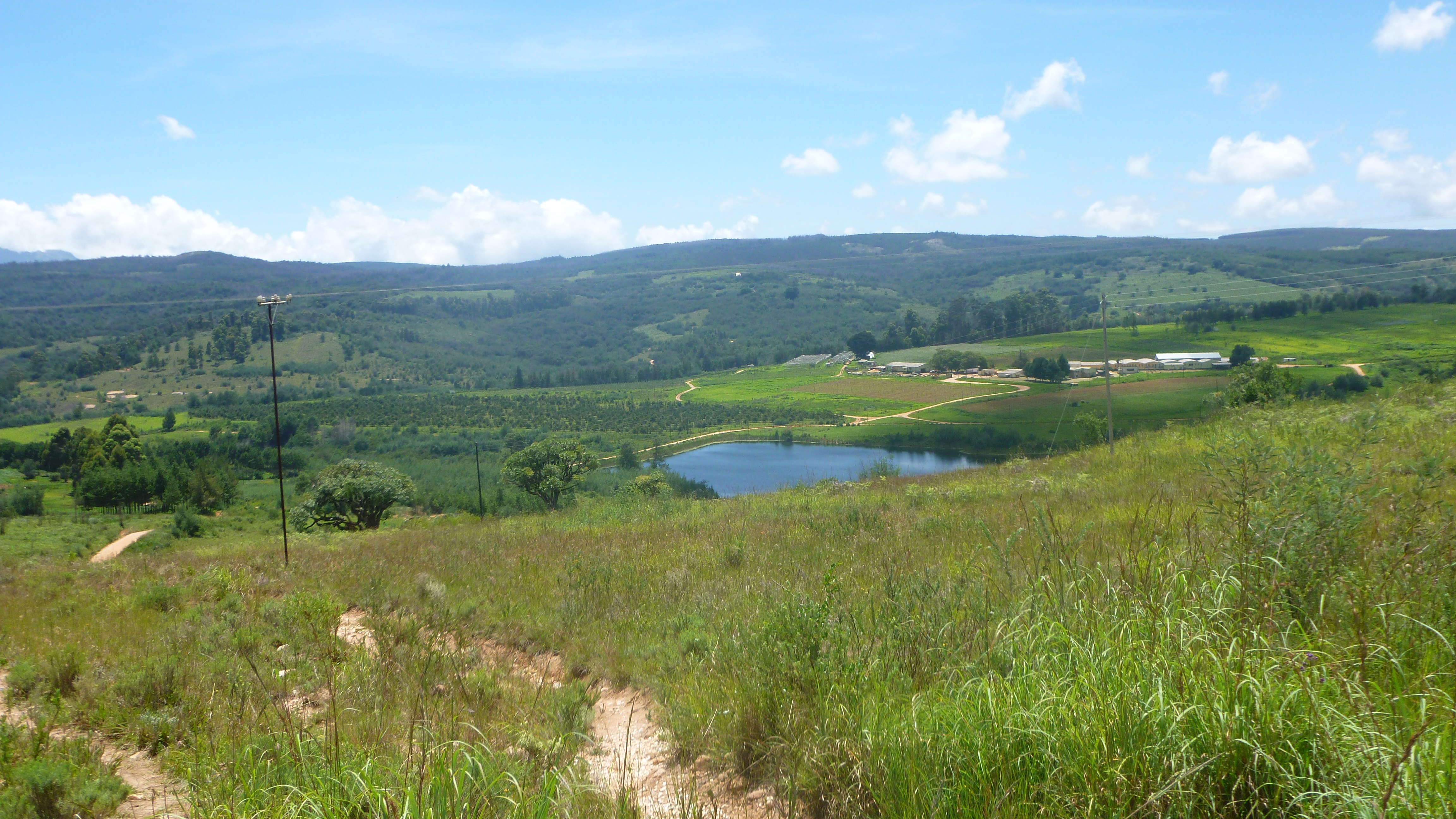 Claremont Estates in Nyanga is a commercial farm producing apples, stone fruit, passion fruit and potatoes.